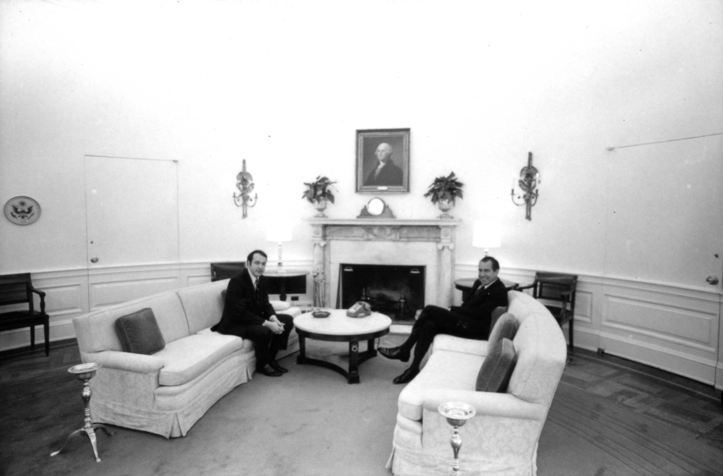 ●Frame(s): WHPO-0514-, President Nixon seated in the Oval office with REA Productions President Roger Ailes. 3/14/1969, Washington, D.C., White House, Oval Office. President Nixon, Roger E. Ailes